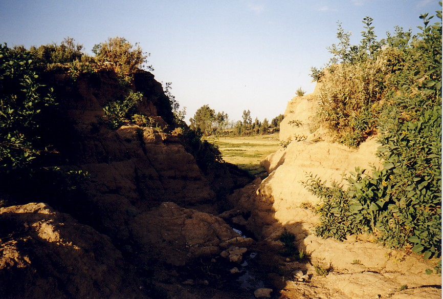 Addi Abagie (broken dam)